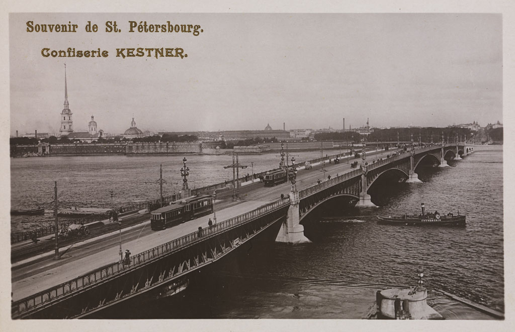 Tittel / Title: Utsikt mot Trotskij bro over elven Neva i St. Petersburg Motiv / Motif: Postkort. Dato / Date: ca 1913 Fotograf / Photographer: ukjent / unknown Sted / Place: Russland, St. Petersburg Eier / Owner Institution: Nasjonalbiblioteket / National Library of Norway Lenke / Link: Bildesignatur / Image Number: bldsa_3f225